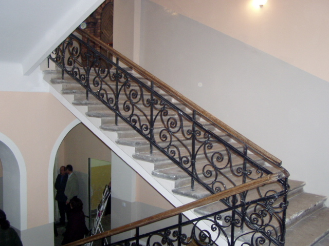 Jeszywas Chachmej Lublin